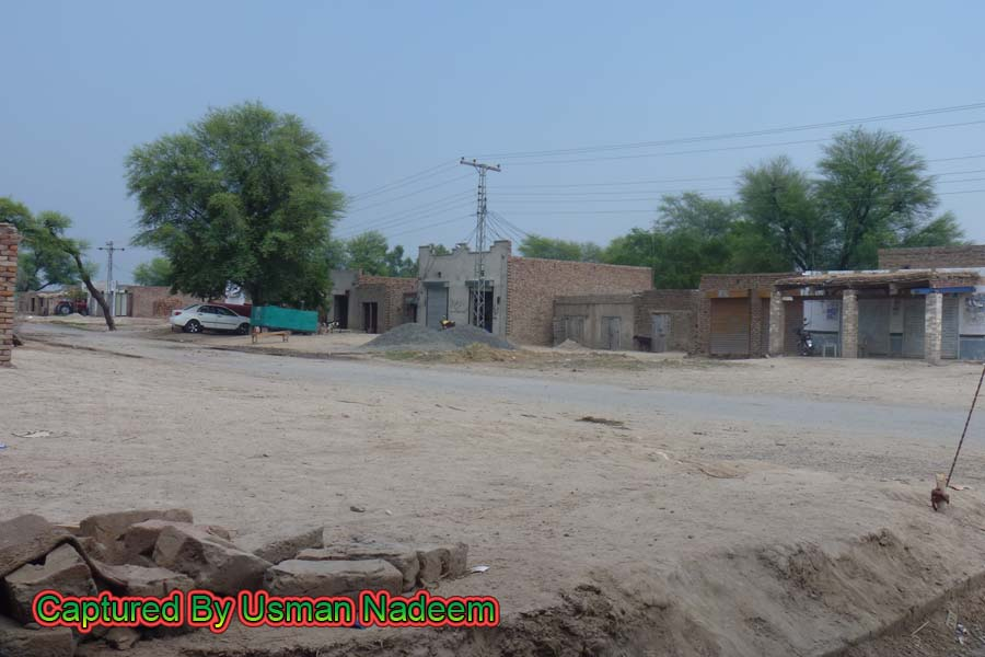 Seith Muhammad Amjid Zargar Muahmmad Wala egency